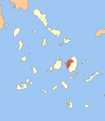 Locator map of Naxos municipality (Δήμος Νάξου) in Cyclades prefecture (Νομός Κυκλάδων) in Greece.